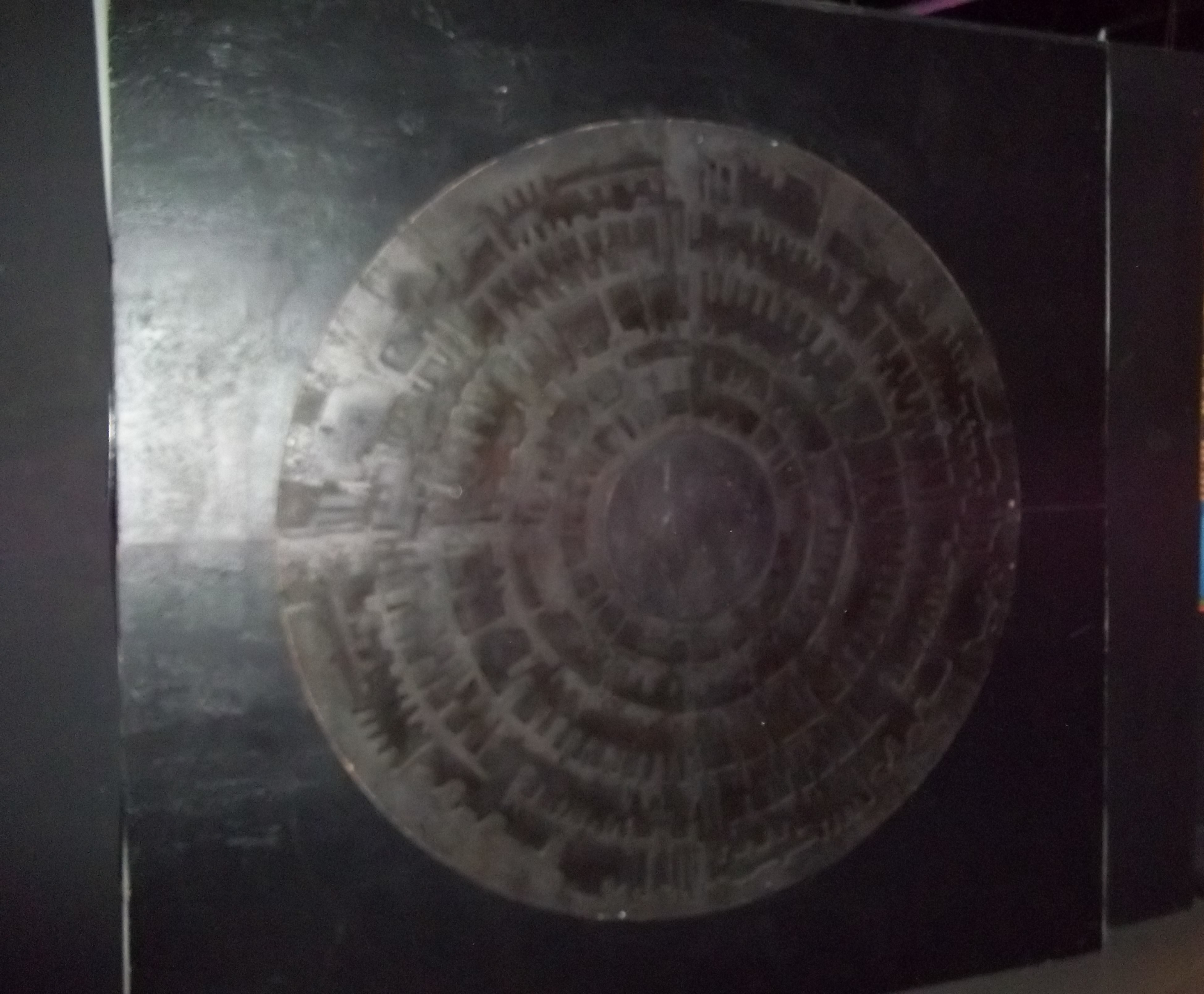 The Pandorica Doctor Who Experience